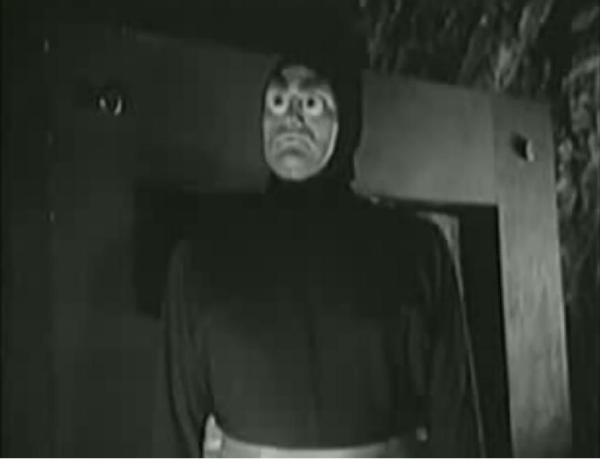 An alien from the movie Killers From Space (1954).